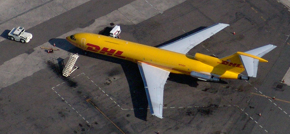 Boeing 727 freighter of DHL on the tarmac at Lindbergh Field (KSAN), San Diego, California.